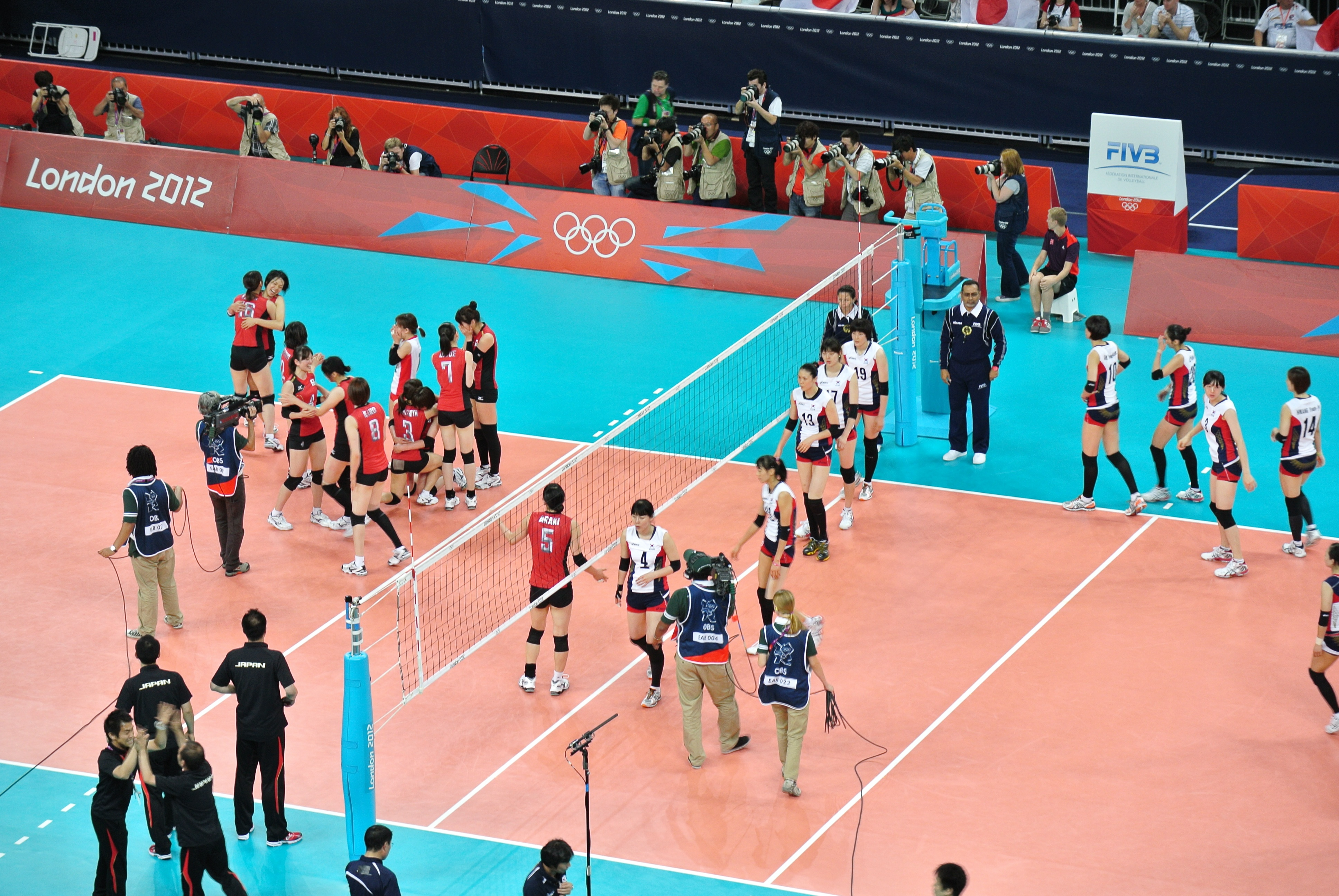 Bronze Medal Match, Japan vs. Korea, at the Women's Volleyball. Nikon 1 V1 + 1 Nikkor VR 30-110mm f/3.8-5.6